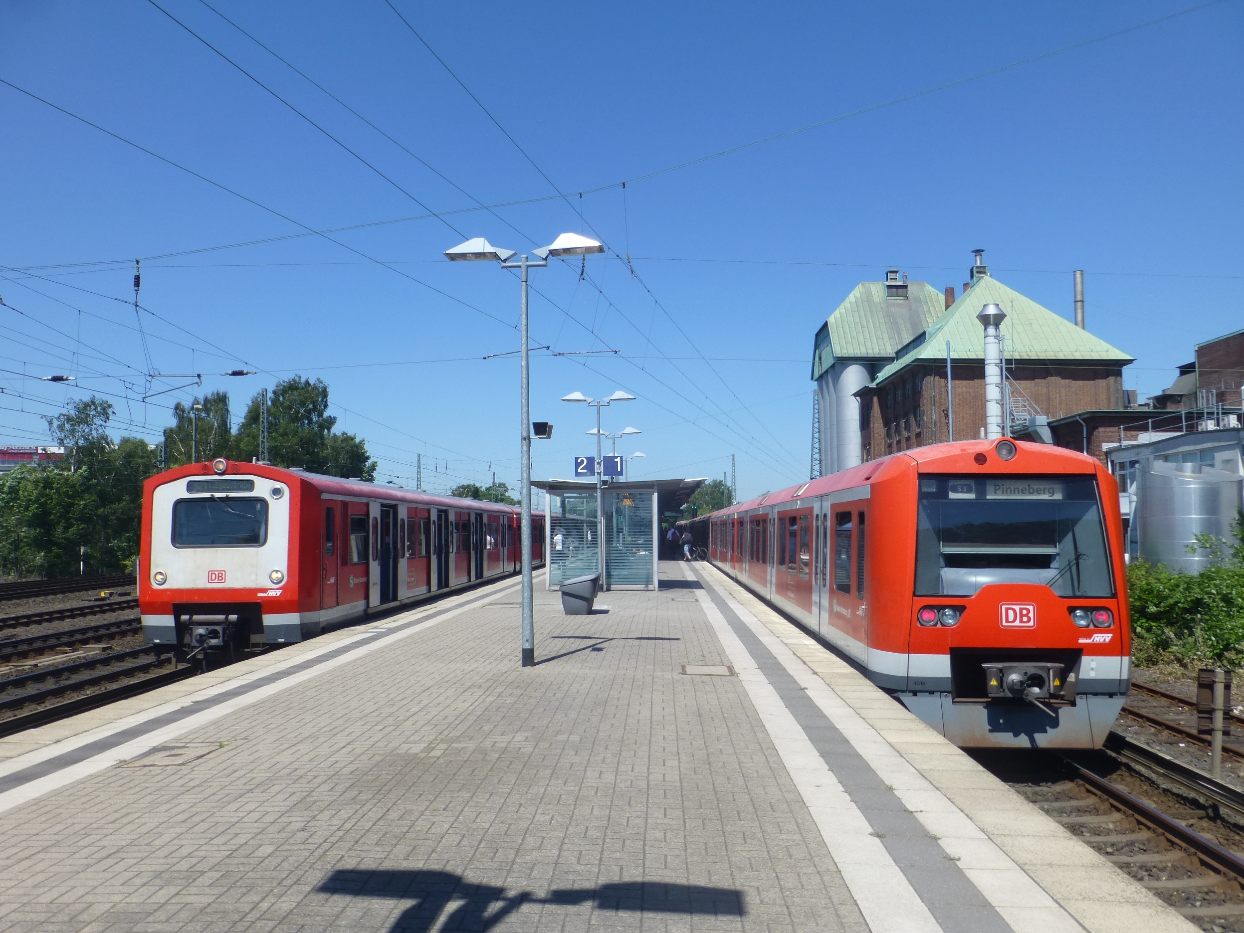 Bahnhof Eidelstedt in Hamburg. S-trains on line S21 for Elbgaustraße (DB Class 472) and line S3 for Pinneberg (DBAG Class 474).